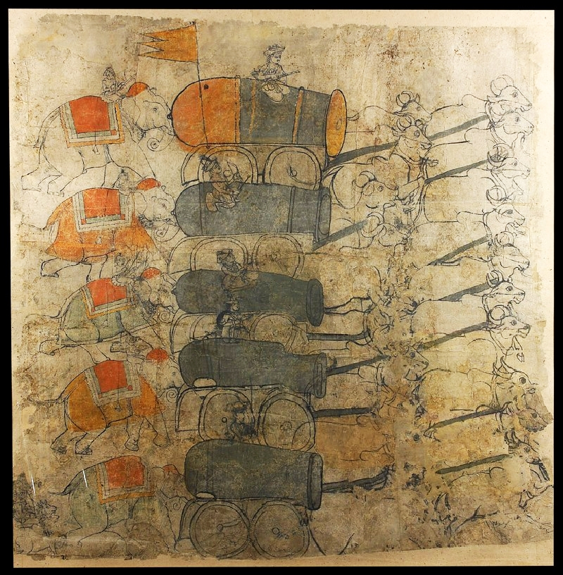 Elephants pushing cannons drawn by bullocks, Kota, mid-18th century [Elephants pushing cannons drawn by bullocks, Kota, mid-18th century] This powerful fragmentary drawing of artillery on the move may have been a study for wall-paintings showing an army on the march. The large carriage-mounted cannons are drawn by bullock teams and pushed from behind by the royal elephants. Master gunners, mainly European mercenaries, sit on each cannon giving directions. Elephants were widely used for extreme lifting and pushing, and heaving the artillery along was all in their day’s work. Source: Ashmolean Museum, University of Oxford